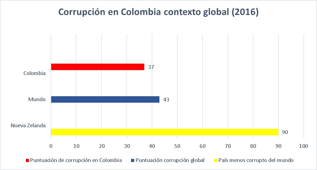 CORRUPTION PERCEPTIONS INDEX 2016,Comparison of corruption in Colombia, with global corruption and corruption in New Zealand